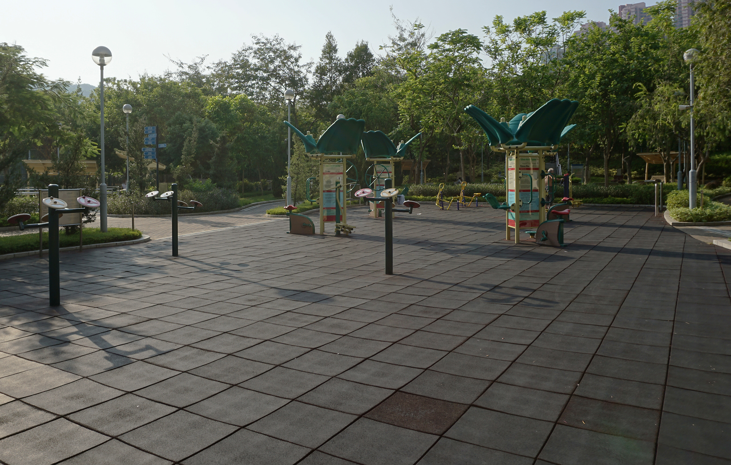 Sheung Ning Playground in Hang Hau, Hong Kong.